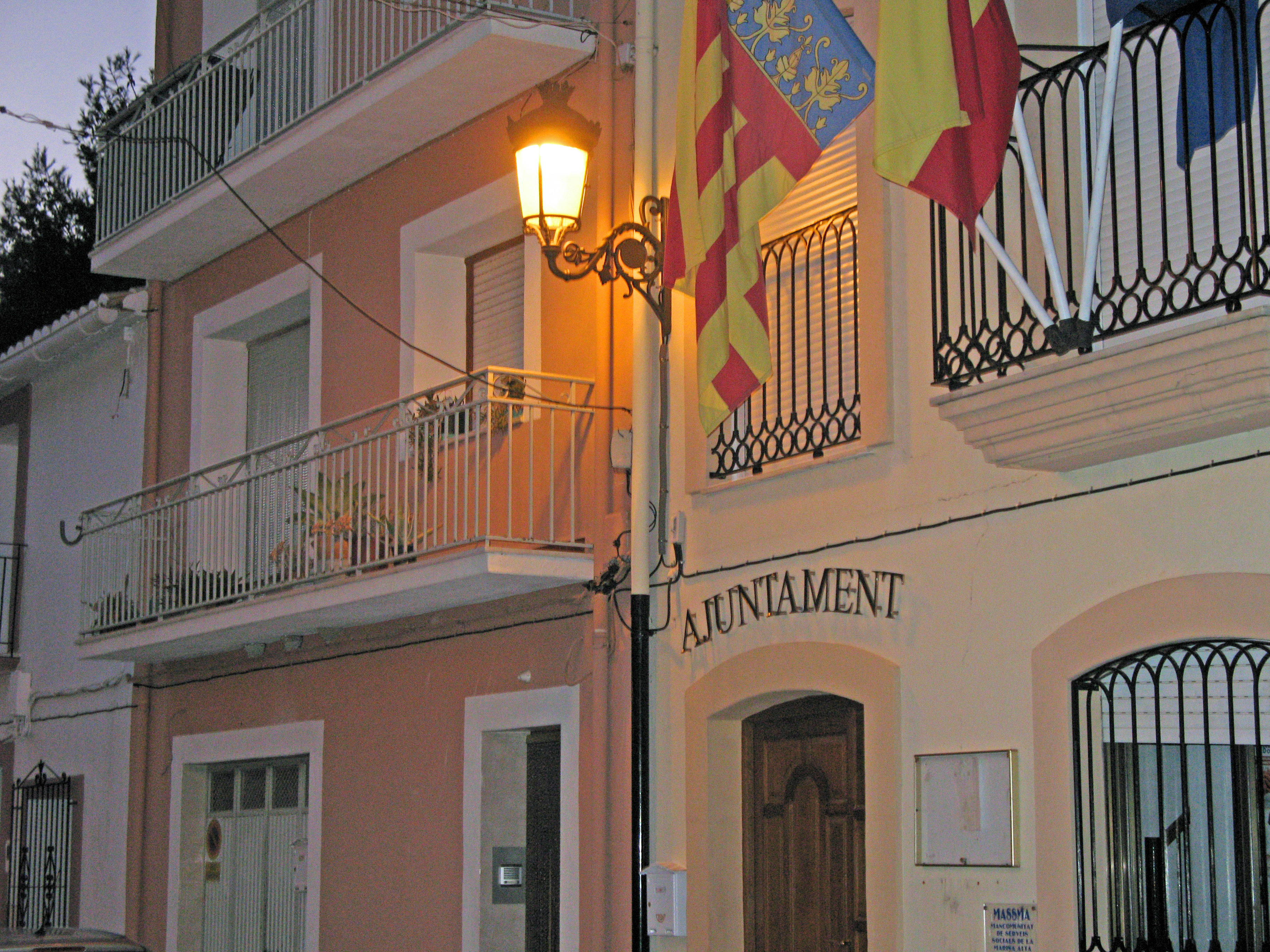 The town hall in Benigembla.